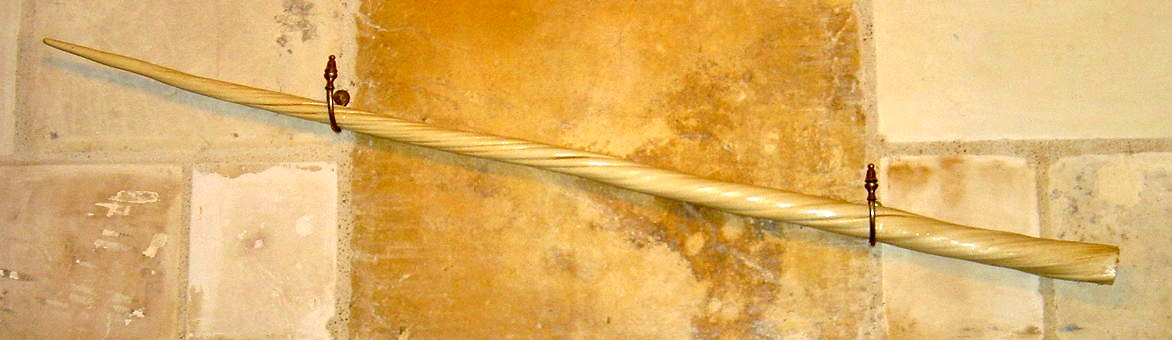 narwal tooth / unicorn